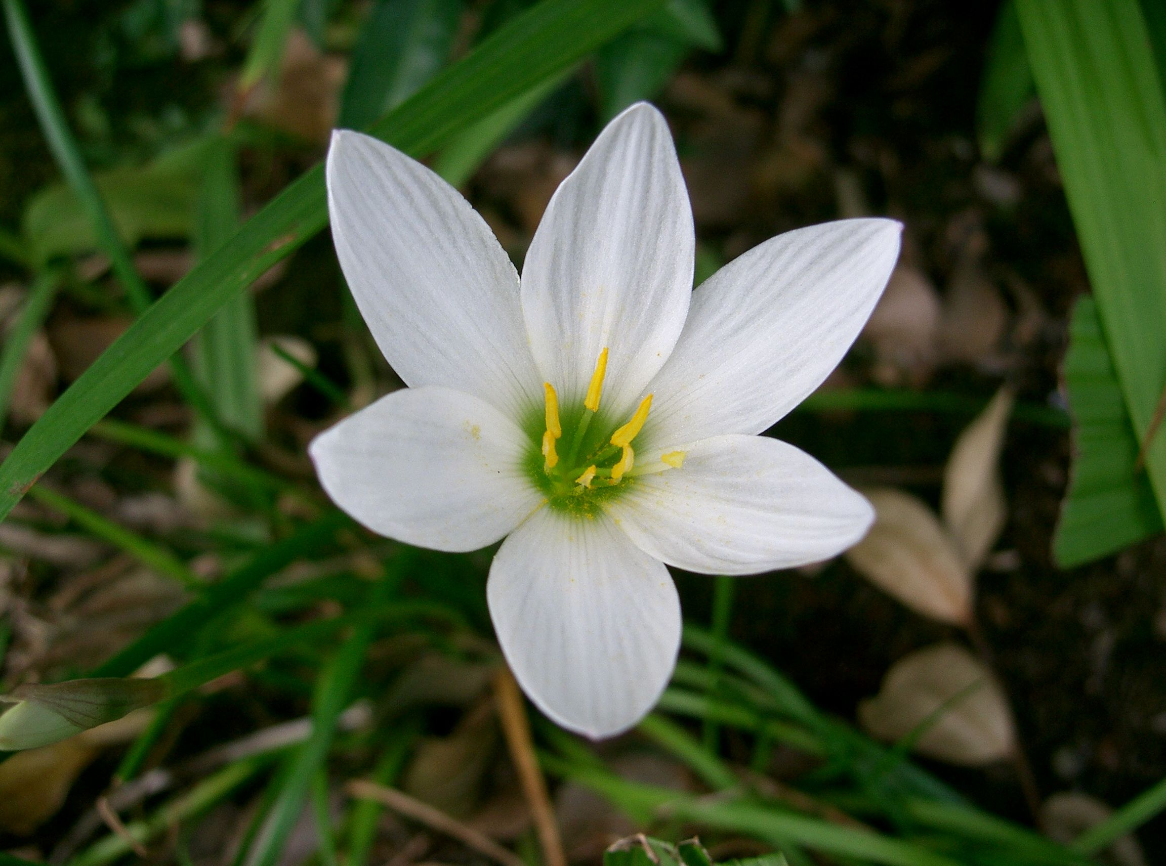 Zephyranthes candida